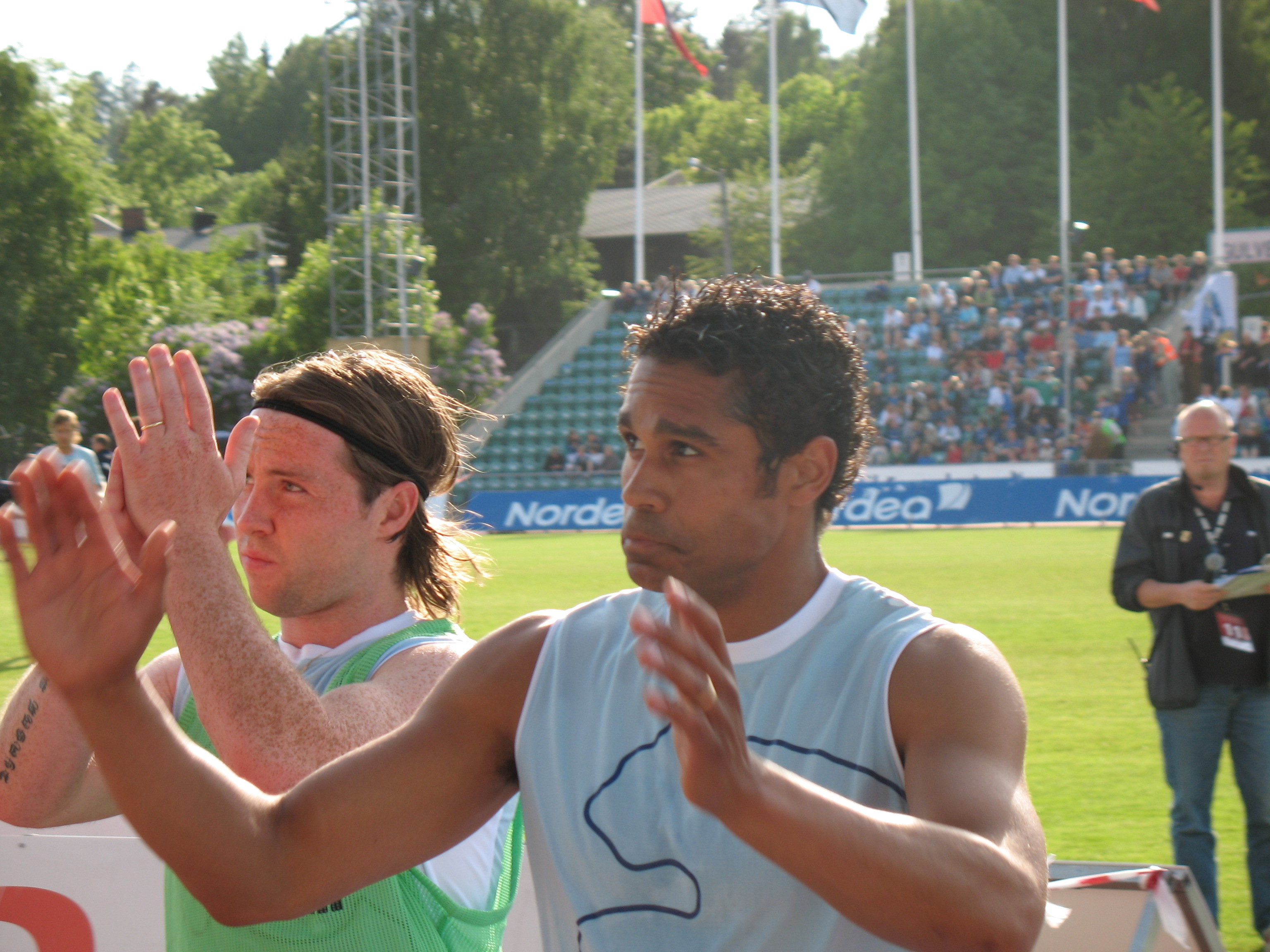 Swedish footballer Daniel Nannskog. Behind is Icelandic footballer Veigar Páll Gunnarson. Both are players of the Norwegian team Stabæk.